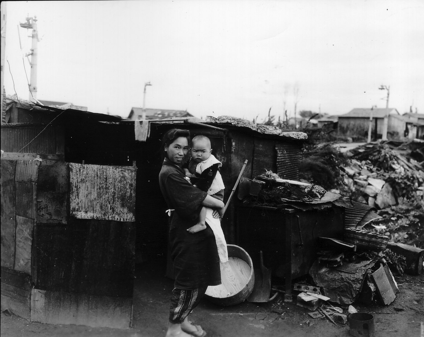 A woman and her child outside their bombed home in Ebisu, Tokyo following World War II